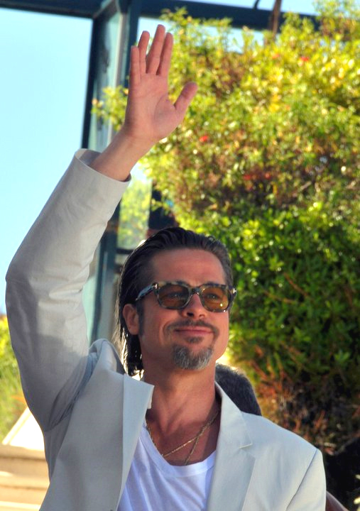 Brad Pitt at the 2011 Cannes Film Festival for the screening of The Tree of Life